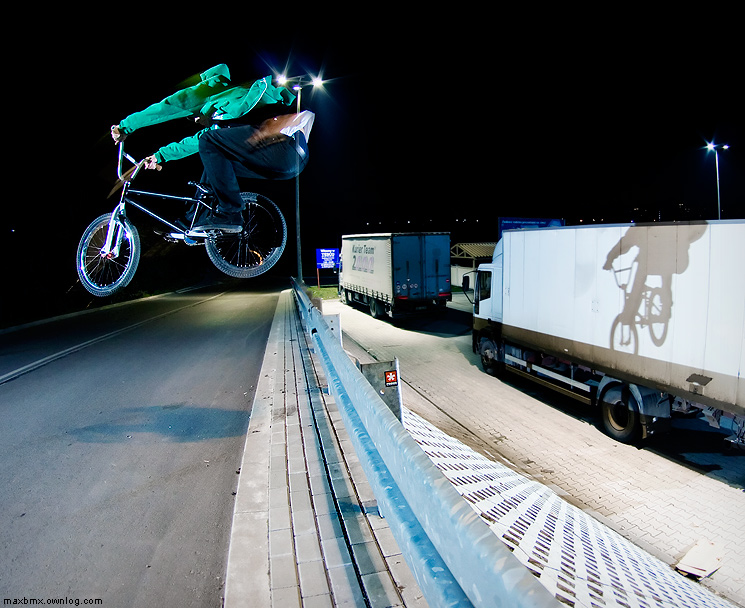 bunnyhop